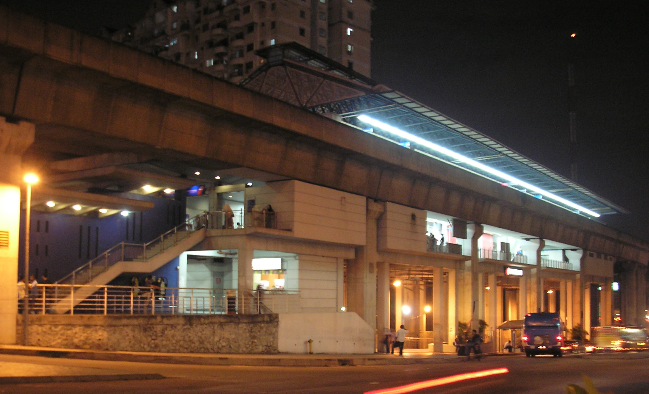 An exterior view (towards the southwest) of the University station (Kelana Jaya Line), in Kerinchi, Kuala Lumpur, Malaysia.